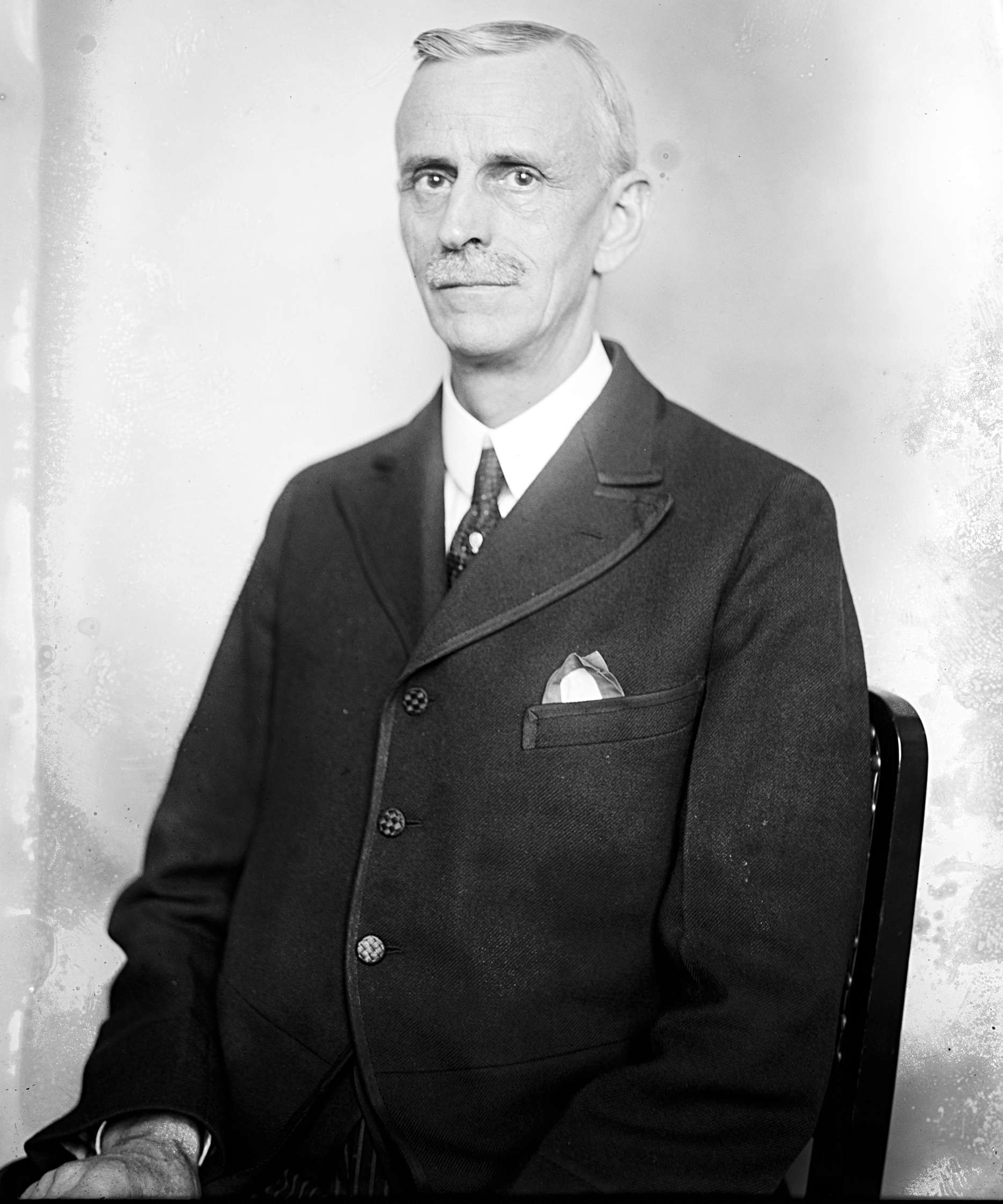 George P. Darrow, US Representative from Pennsylvania